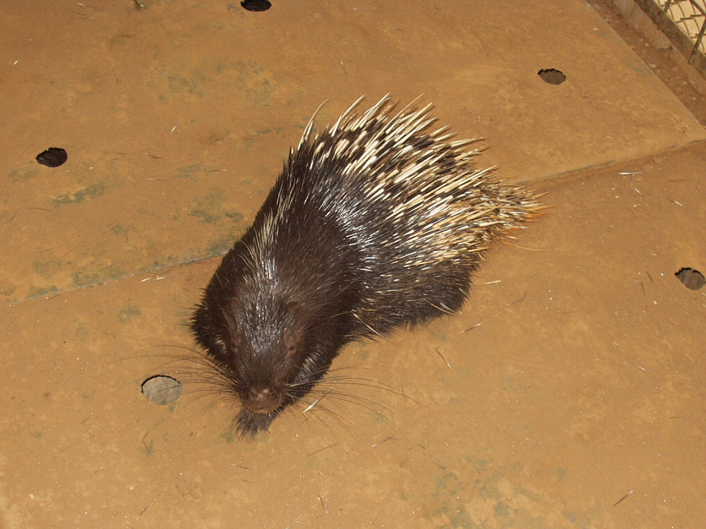 animal with full of nail, Dhaka zoo